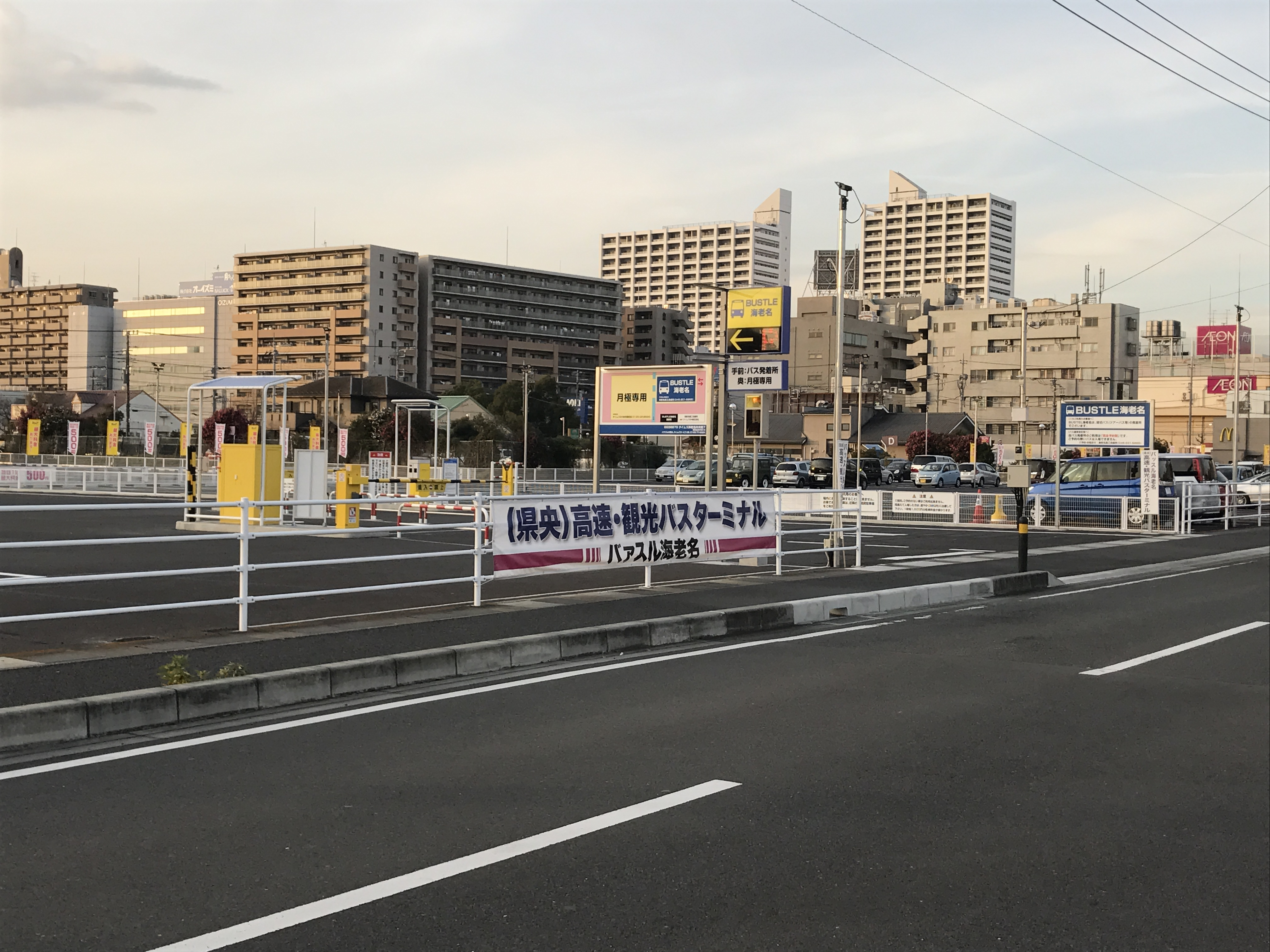 Hiway bus & Sightseeing bus terminal "BUSTLE Ebina" at Ebina city, Kanagawa in Japan.